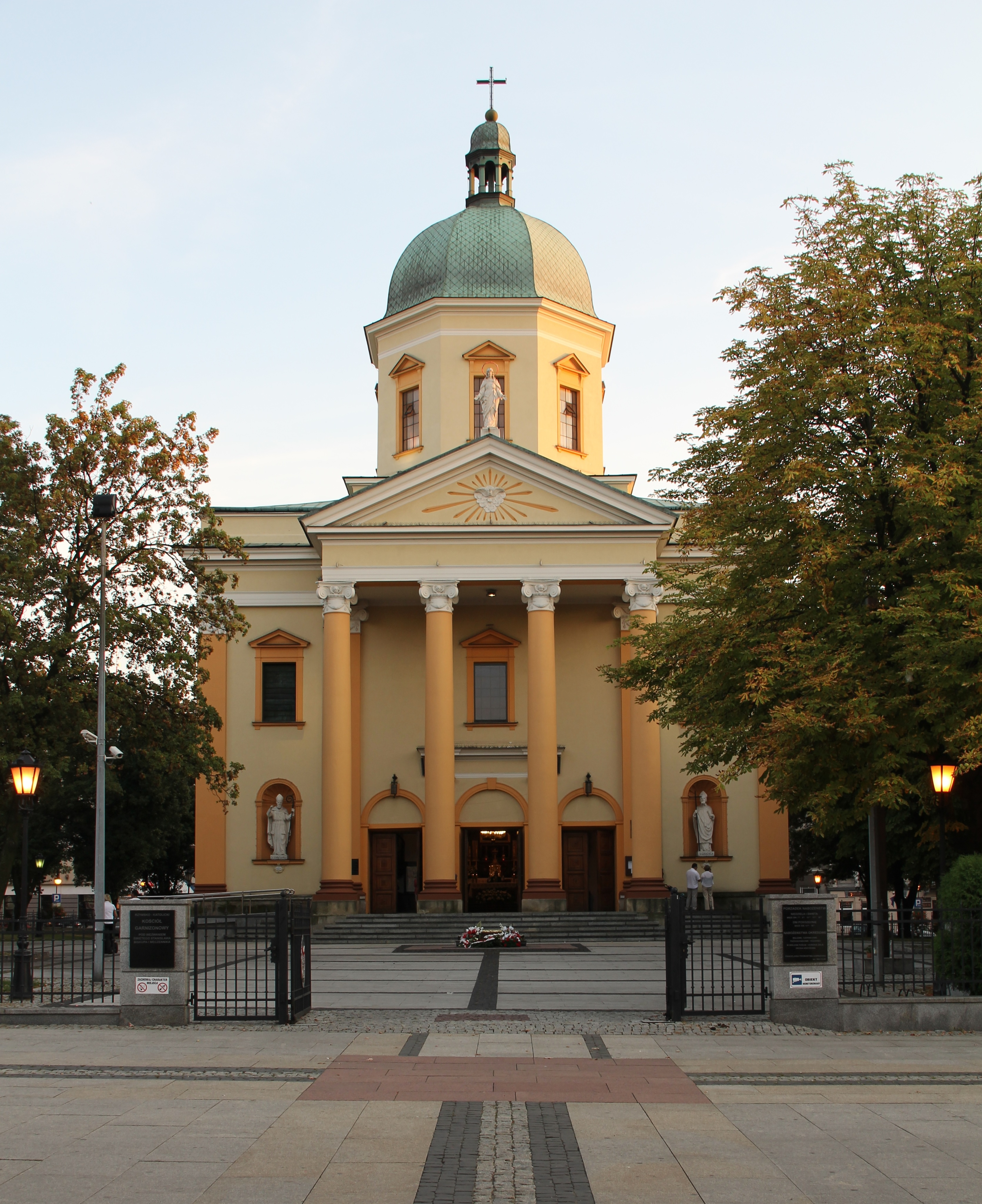 Garrison Church ex eastern Orthodox church